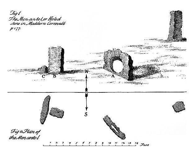 Mên-an-Tol - Morvah - Cornwall - UK